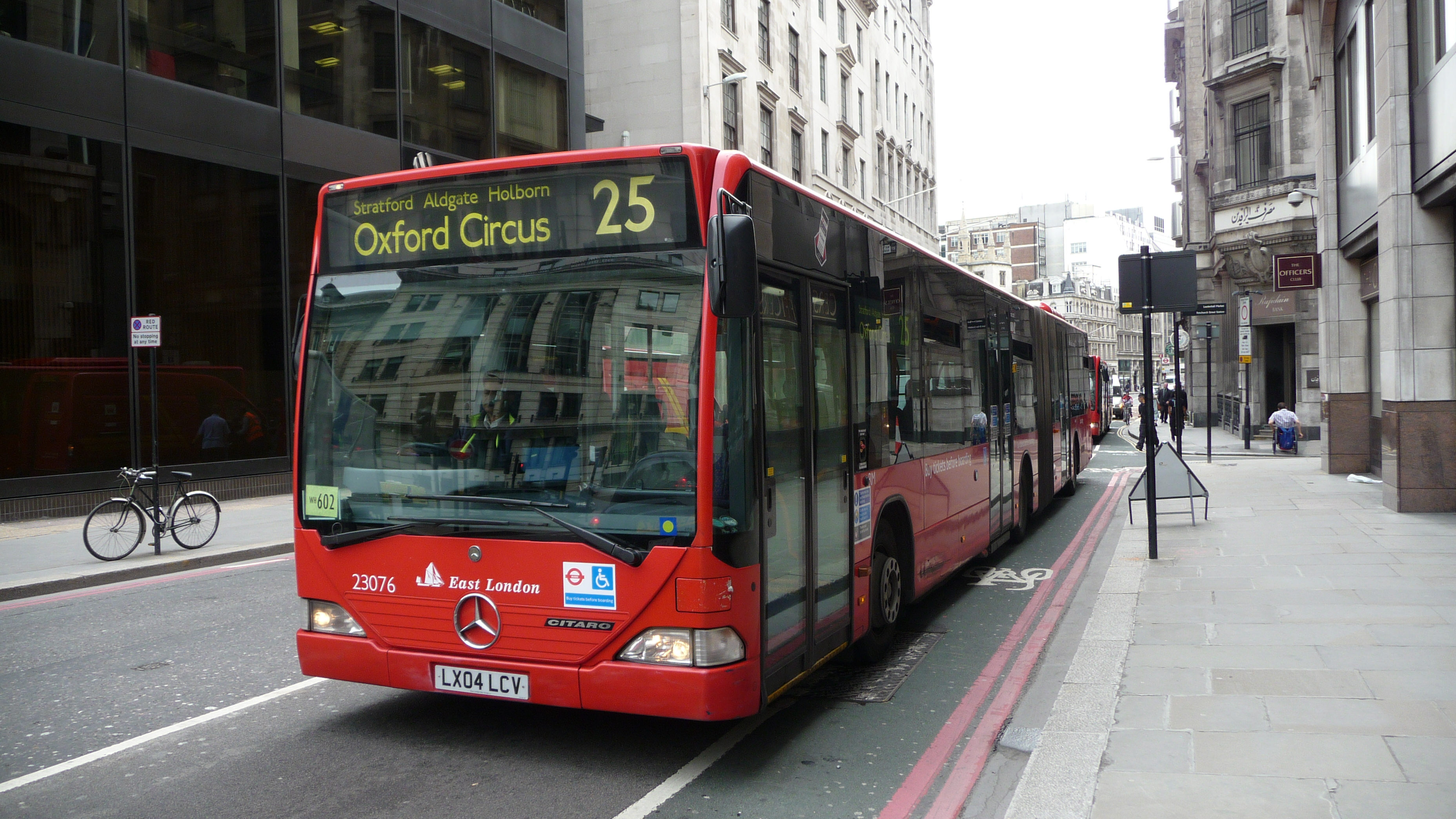 East London 23076 (LX04 LCV), a Mercedes-Benz Citaro G, in Leadenhall Street, City of London, on route 25.